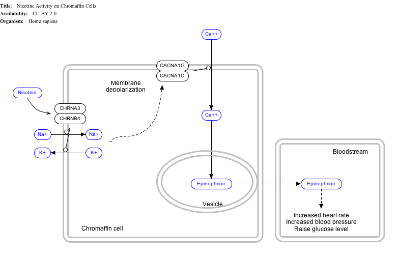 Diagram depicting the activity of Nicotine in Chromaffin cells